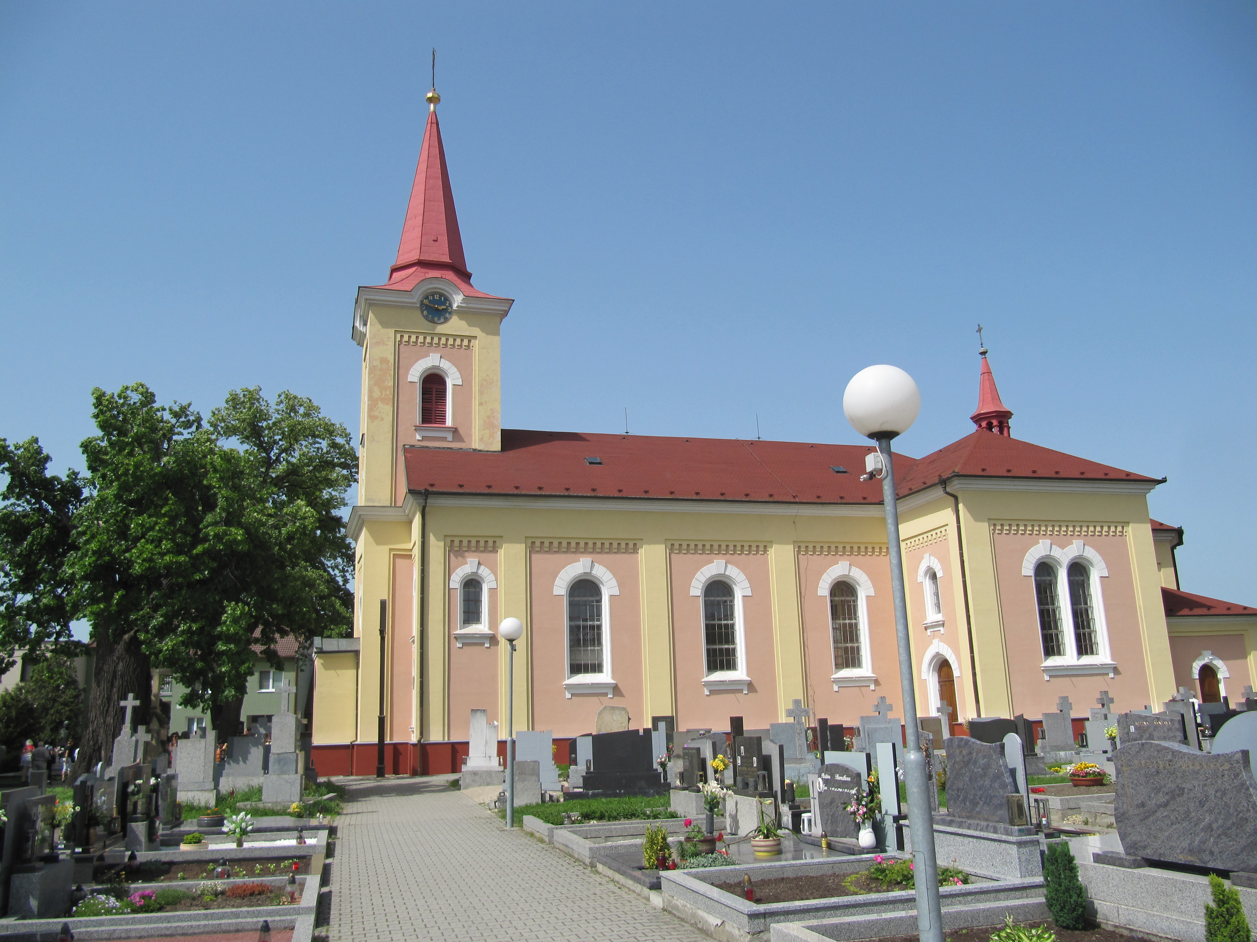 Kněždub, Hodonín District, Czechia.